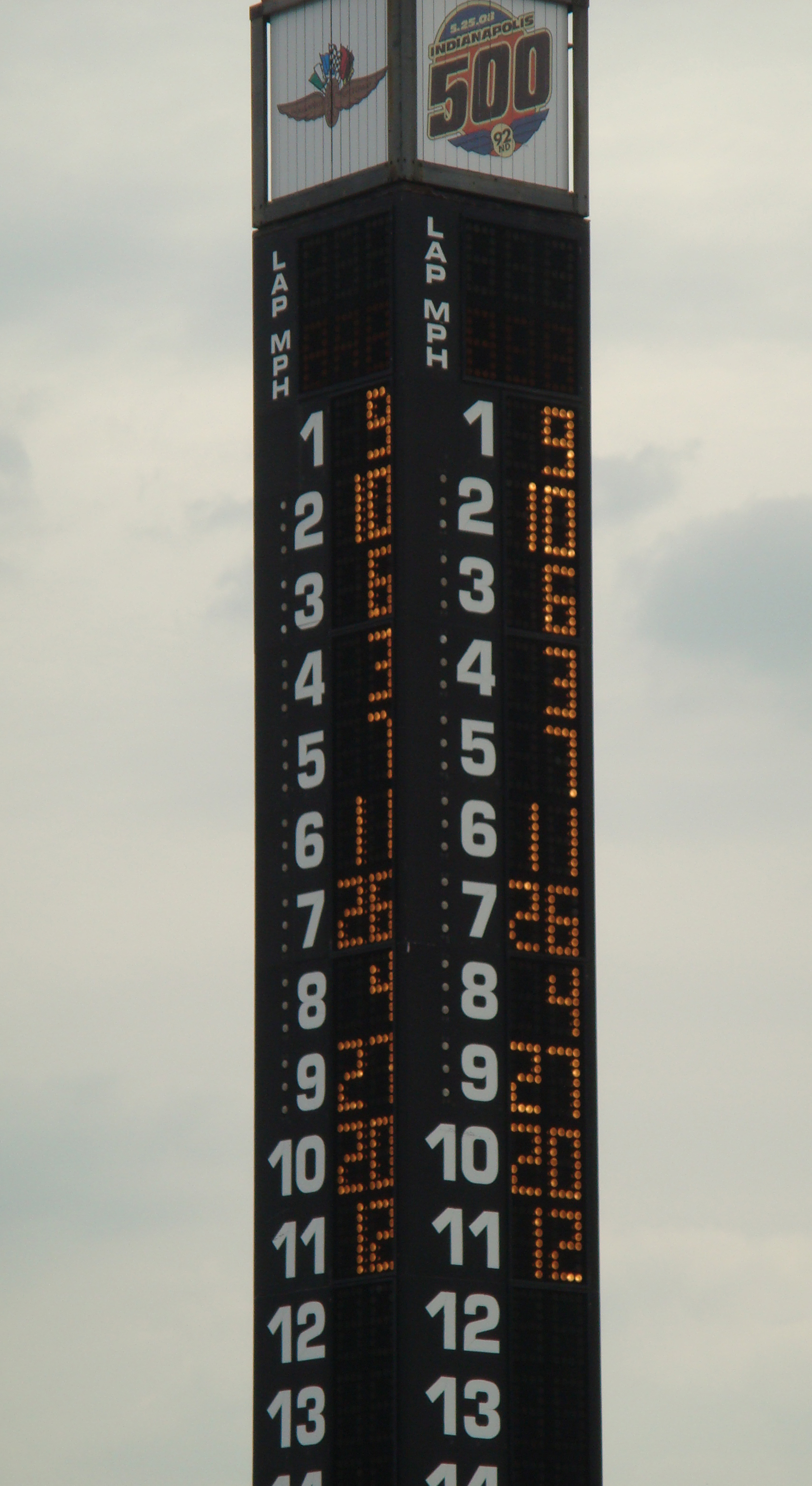 Scoring pylon following pole day qualifications for the 2008 Indianapolis 500